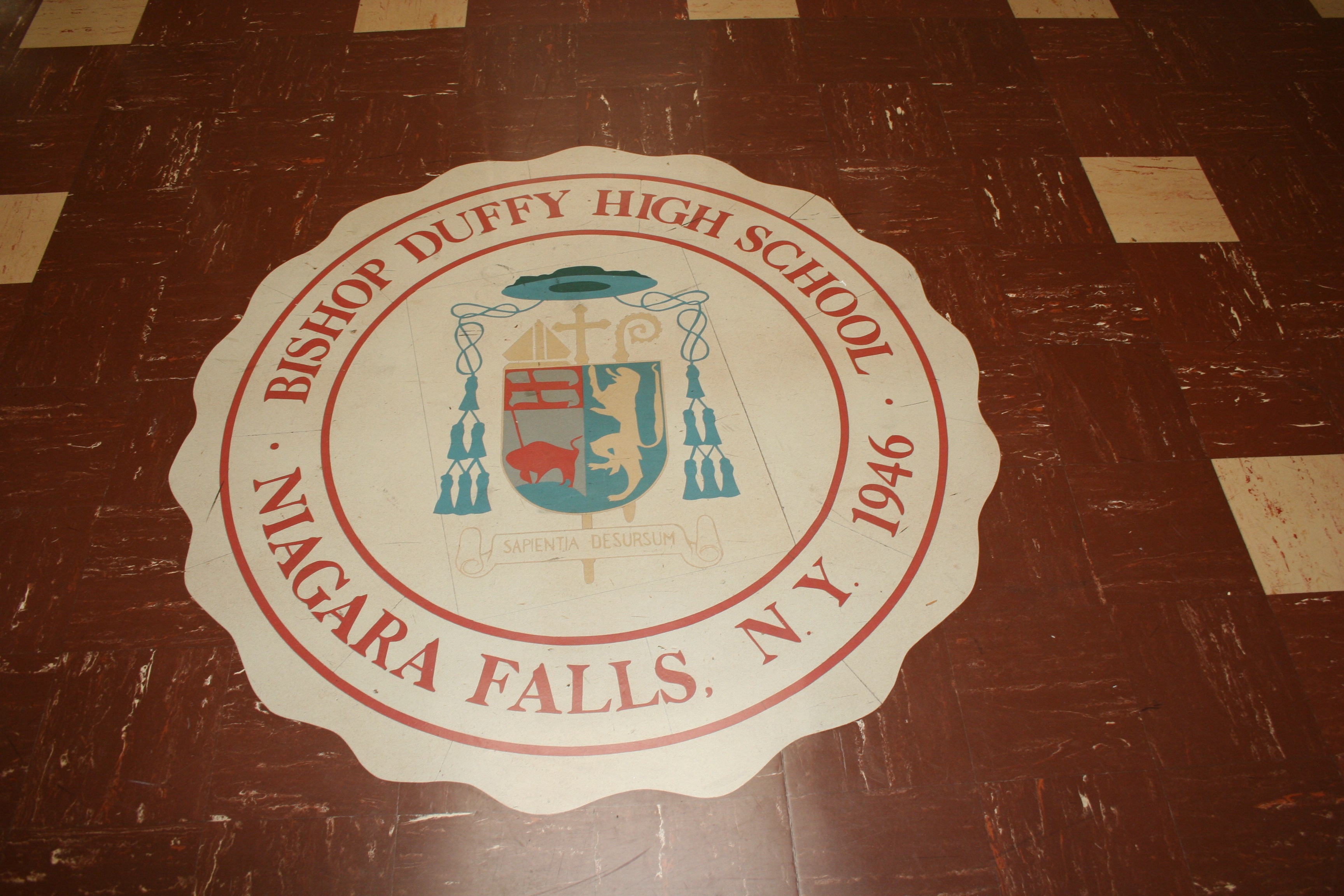 Bishop Duffy High School Seal